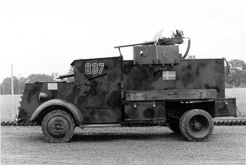 Swedish Pbil m/31 armoured car